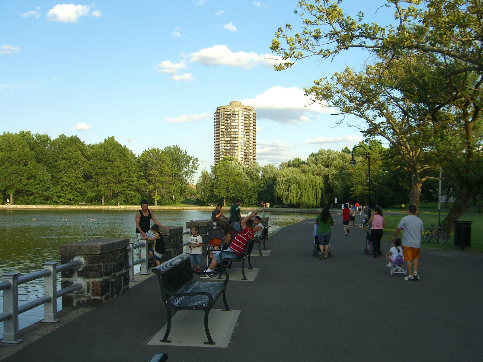 James J. Braddock North Hudson Park in North Bergen, New Jersey.